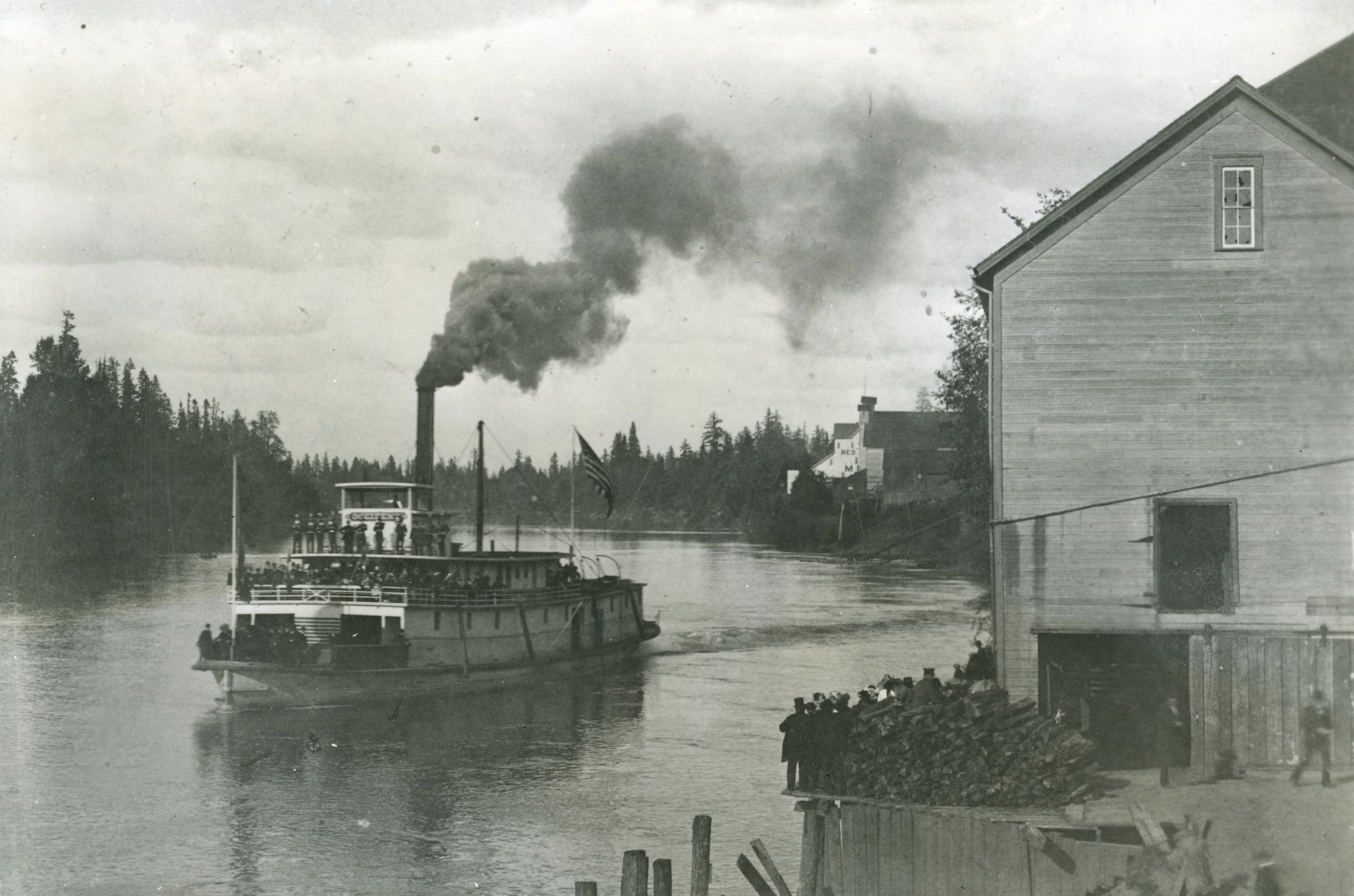 Stern-wheel steamboat Occident, at Albany, Oregon, near Red Crown Mills (white building on right), and also near where a railroad bridge would be built across the Willamette River. Historian Corning, who inspected the original, stated that a uniformed band and the top hats worn by the passengers mark the image as depicting a special occasion. Image created sometime between 1875 and 1891.